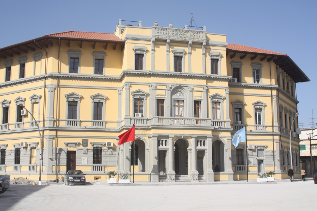 Vlora City Hall